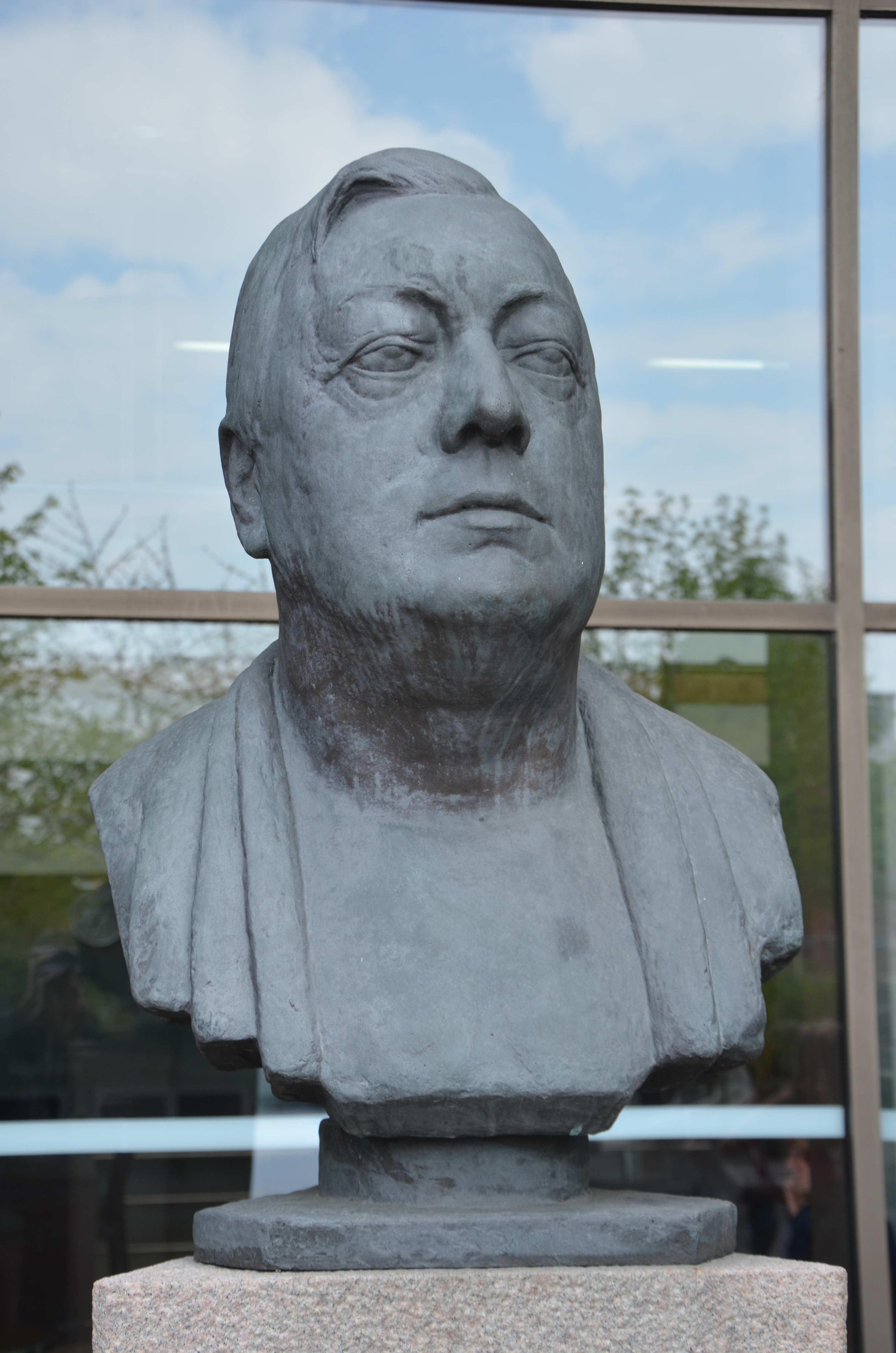 Bust of Karl Petrén, outside Lund University Hospital